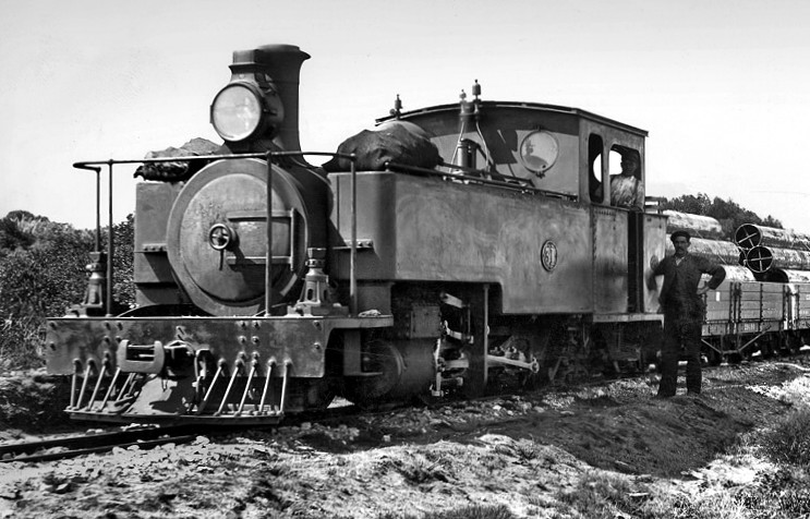 CGR Type A 2-6-4T no. 31 of 1902, later SAR no. NG25